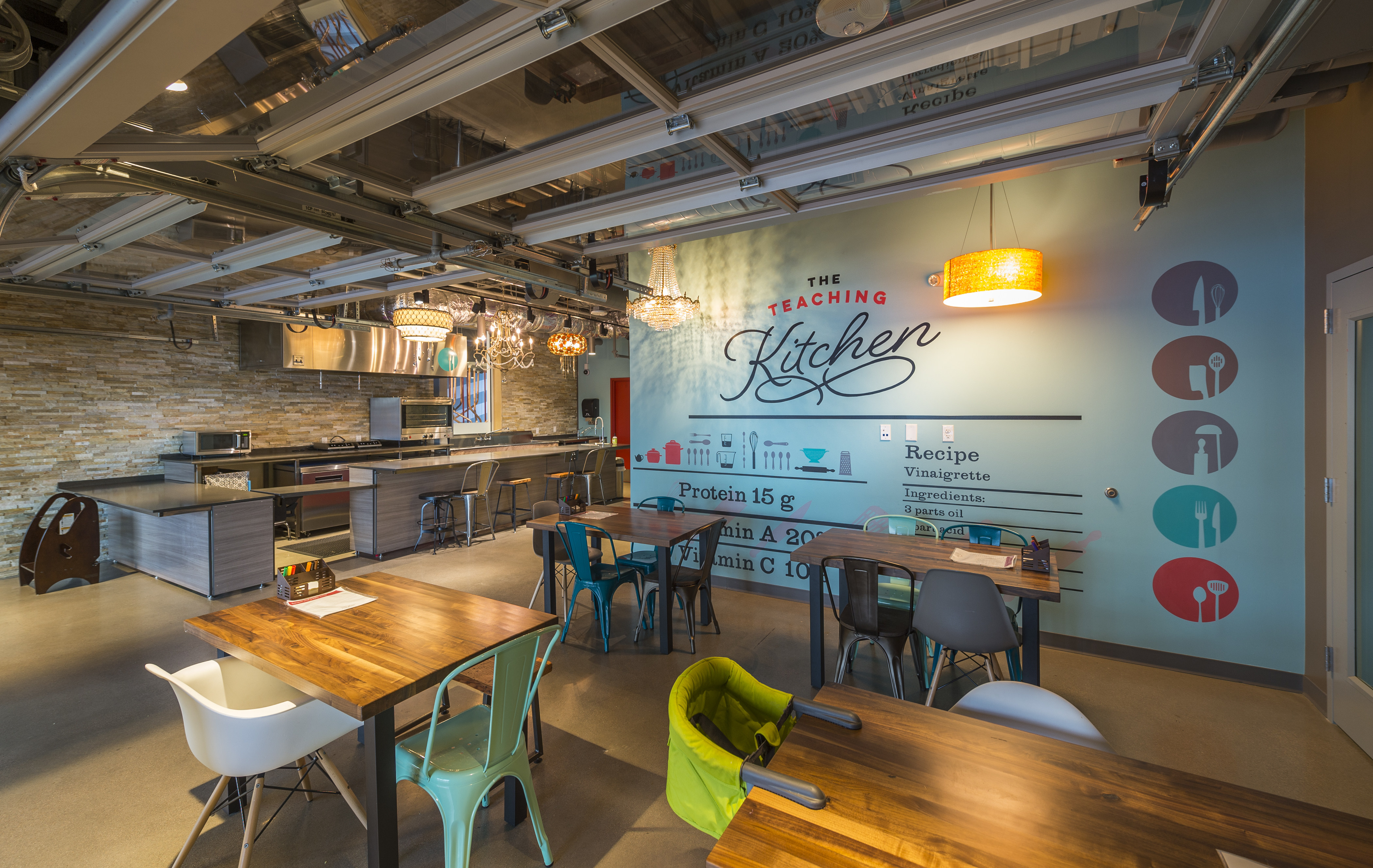 The Teaching Kitchen